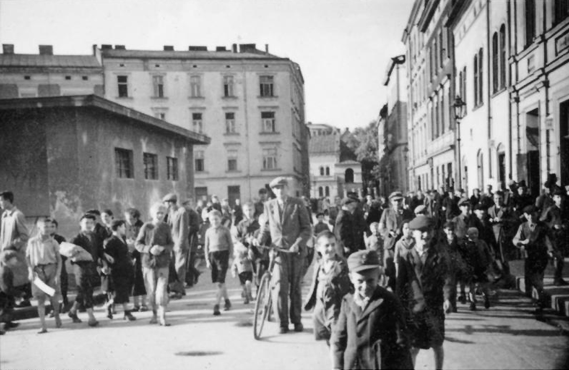 Information added by Wikimedia users.The photograph shows Kraków Ghetto (location) during occupation of Poland by Nazi Germany in World War II.